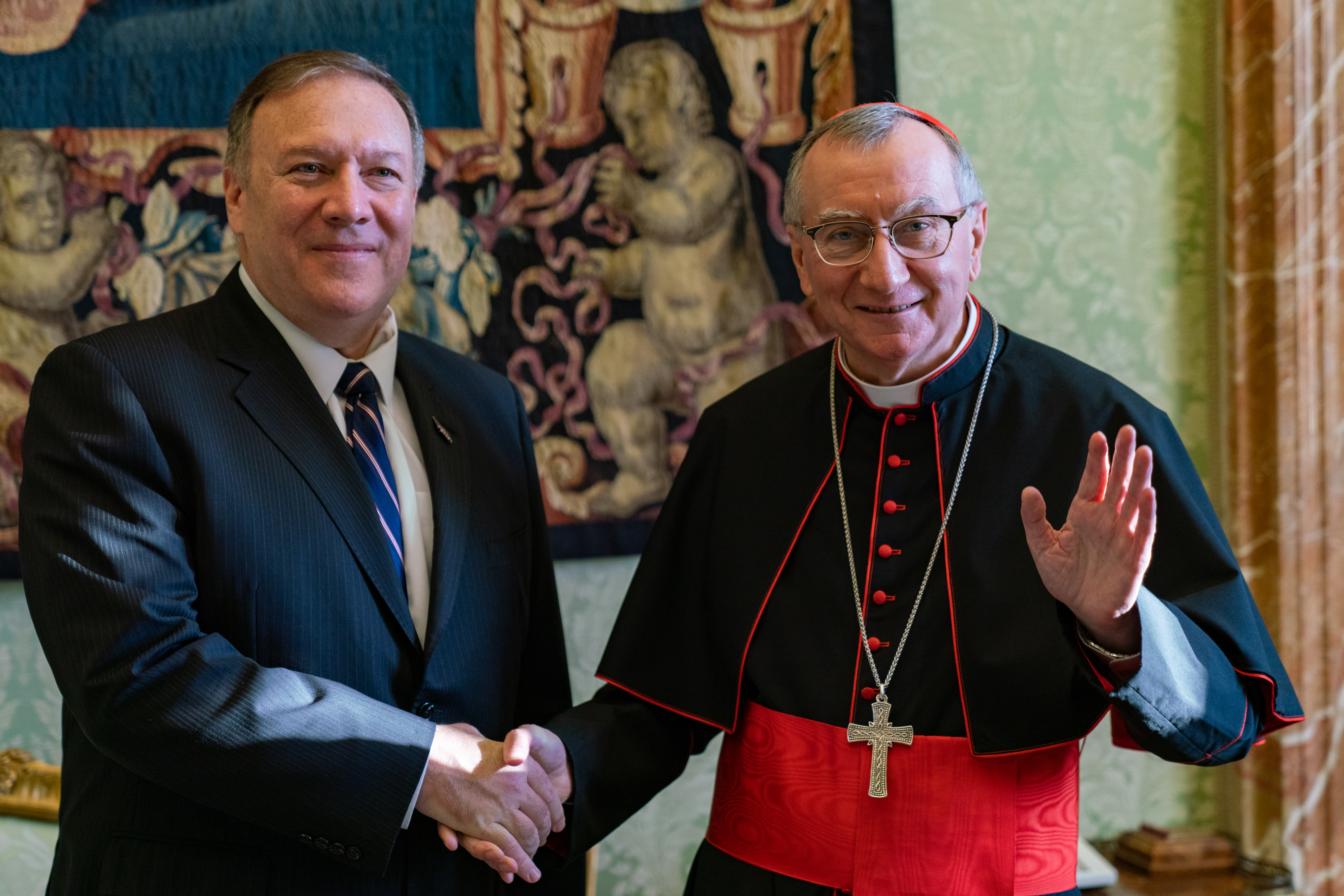 U.S. Secretary Michael R. Pompeo shakes hands with Vatican Secretary of State Cardinal Pietro Parolin in Vatican City, on October 2, 2019. [State Department photo by Ron Przysucha/ Public Domain]